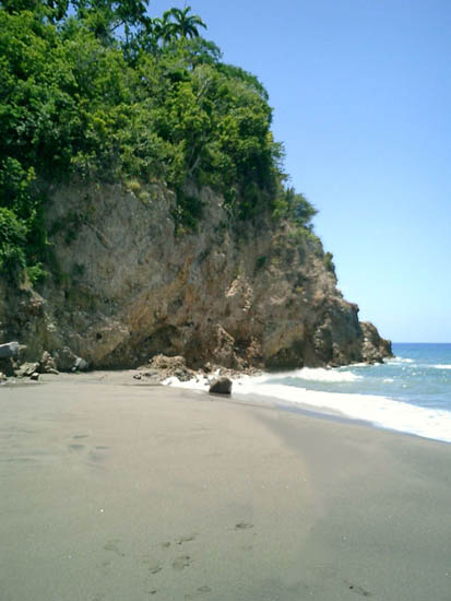 Photograph by T. Gilligan